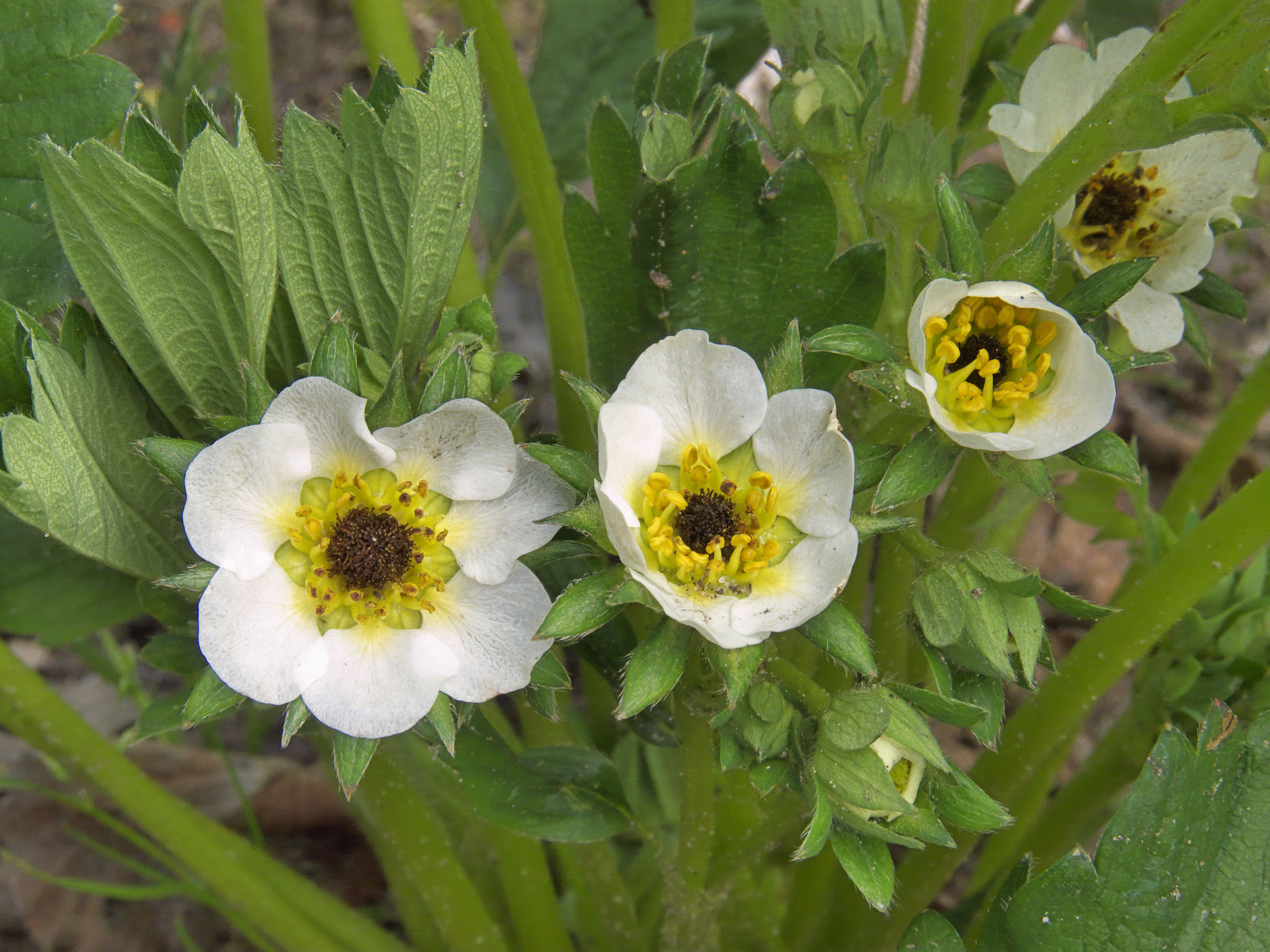 Fragaria × ananassa flower 'Korona' frost damage